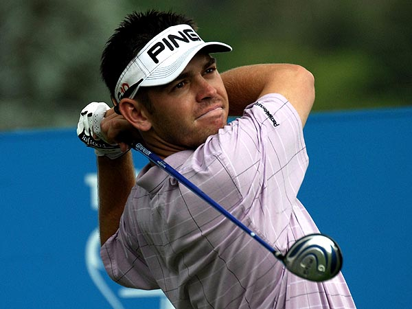 South African golfer Louis Oosthuizen at the Telkom PGA Championship, Fourth round.